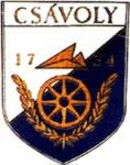 Coat of arms of Csávoly, Hungary